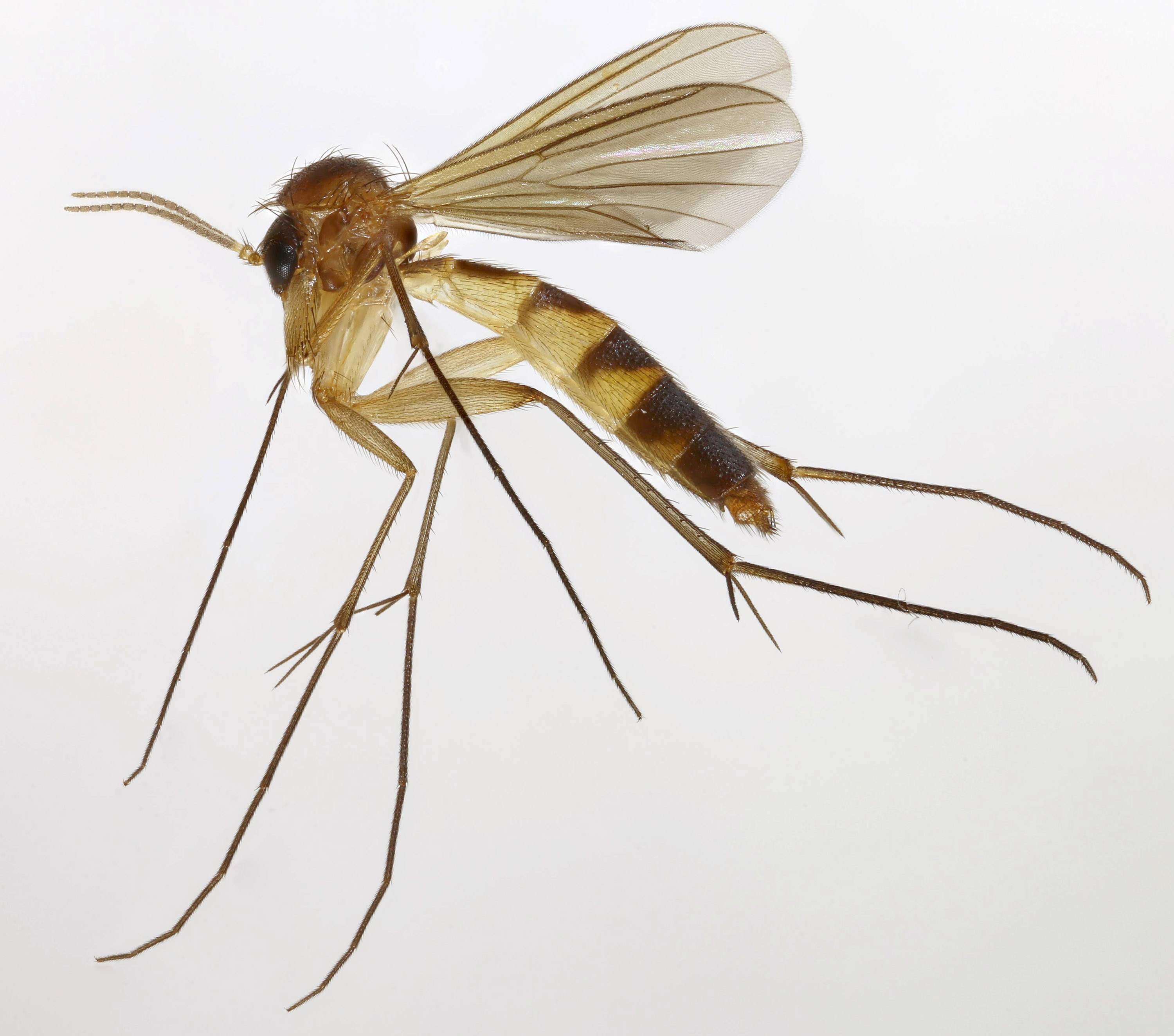 Exechiopsis crucigera, Nant Gwrtheyrn, North Wales, Oct 2017